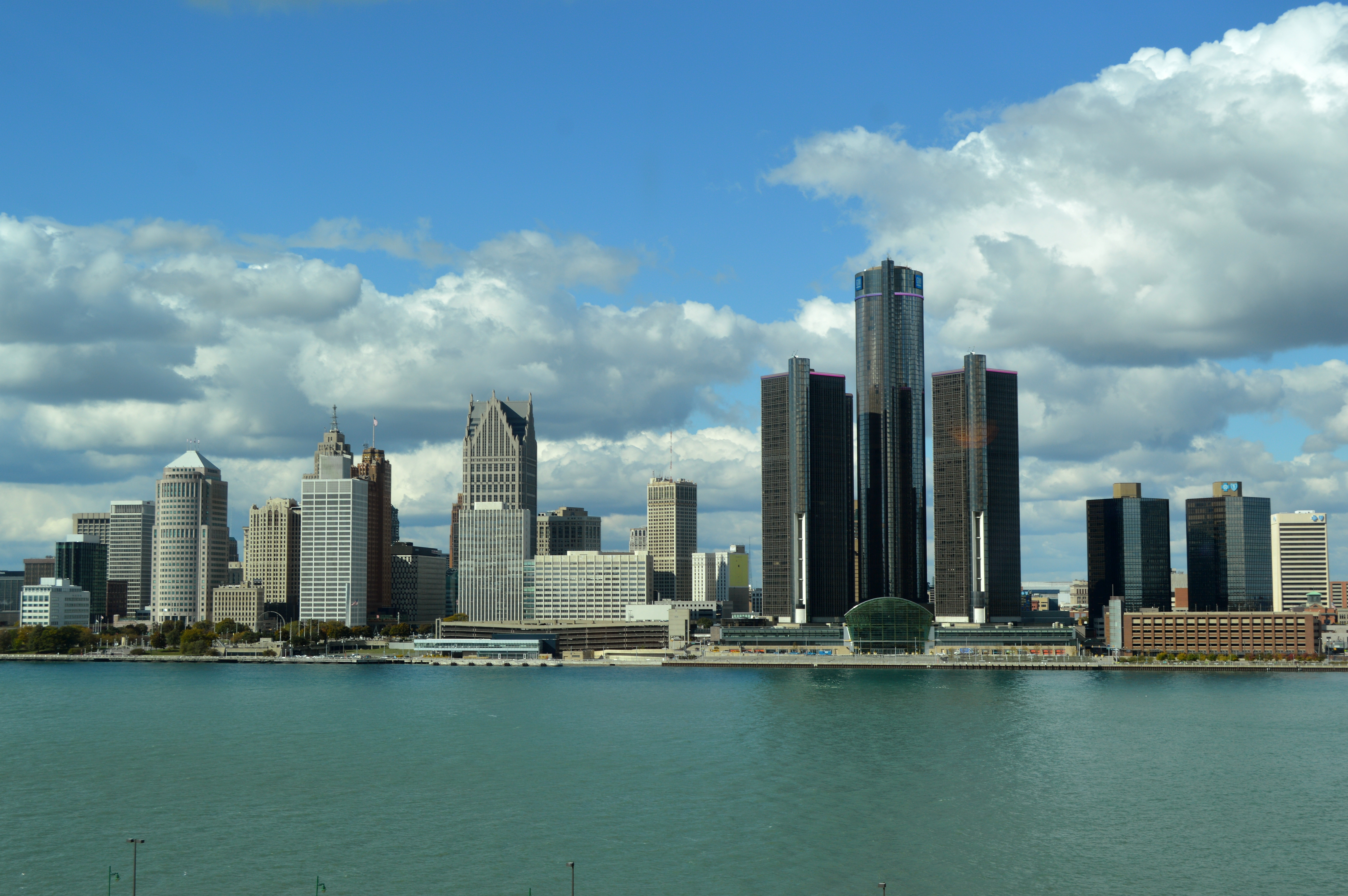 Detroit, USA Taken From Windsor, Canada